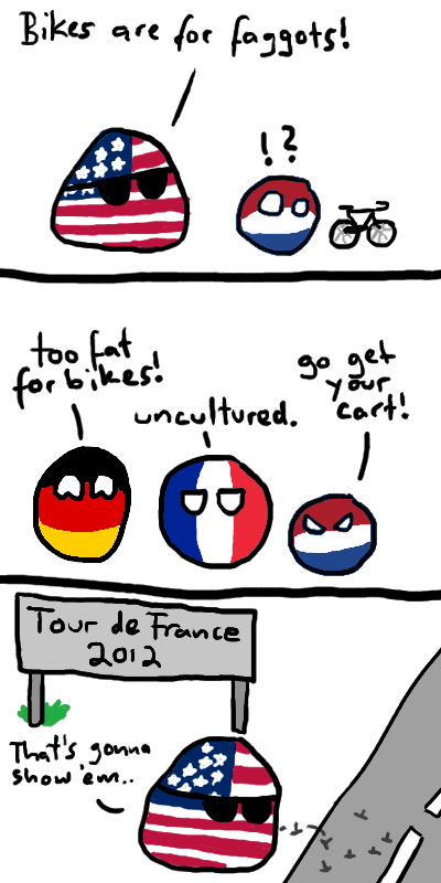 Polandball comic on the news that the route of the 2012 Tour de France was sabotaged with tacks. (news link)